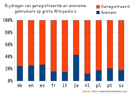 Text of image translated for Dutch Wikipedia